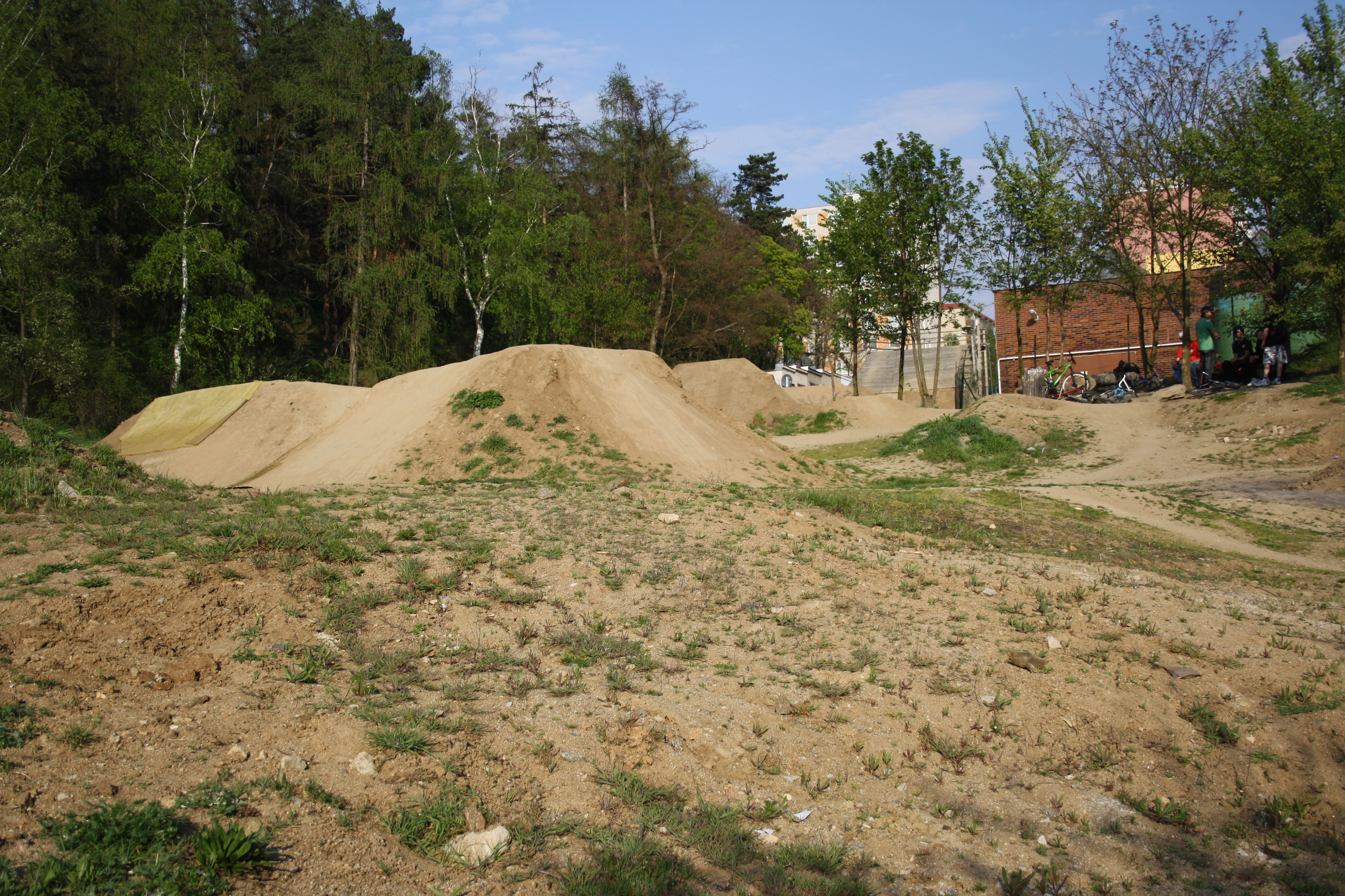 Bike park in Třebíč, Czech Republic.